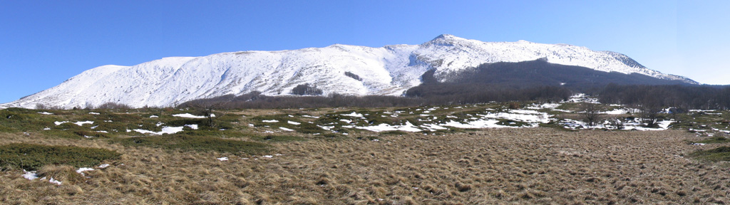 Czatyrdag, view of upper plateau